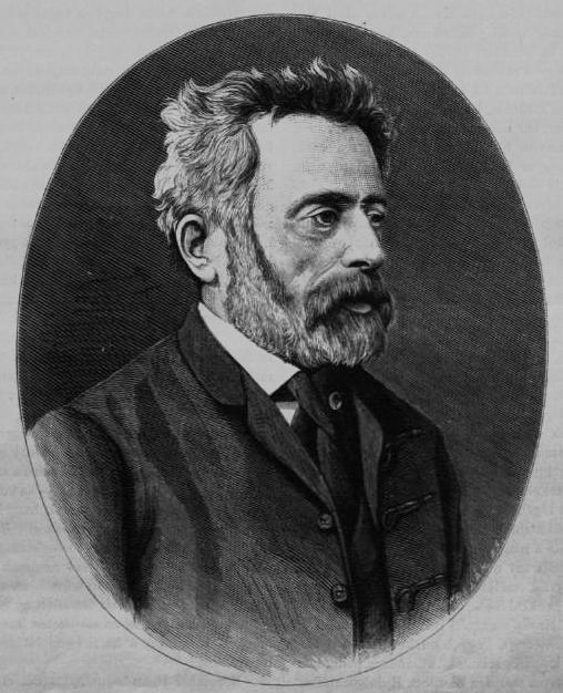 Portrait of Adolf Dux